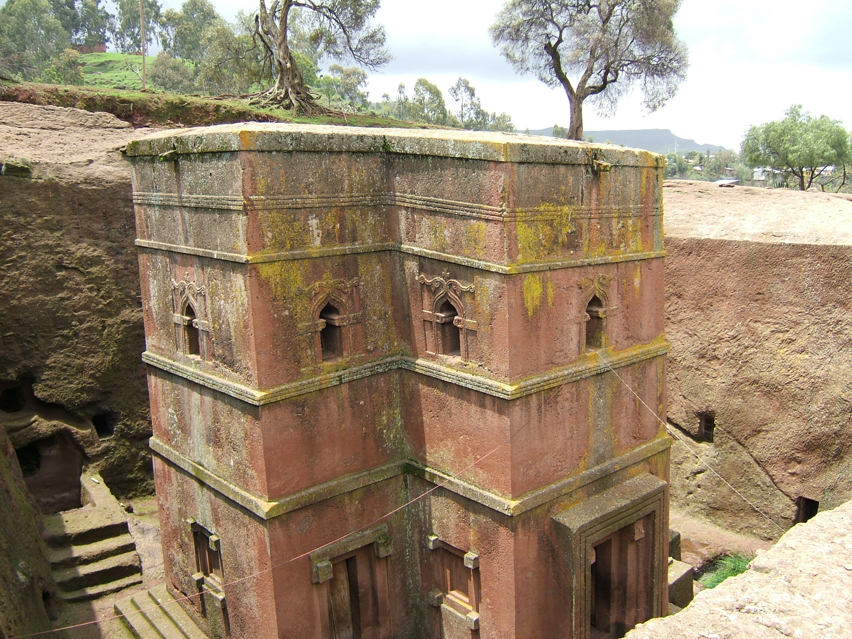 Original caption: “Bet Giyorgis church, Lalibela” — Flickr